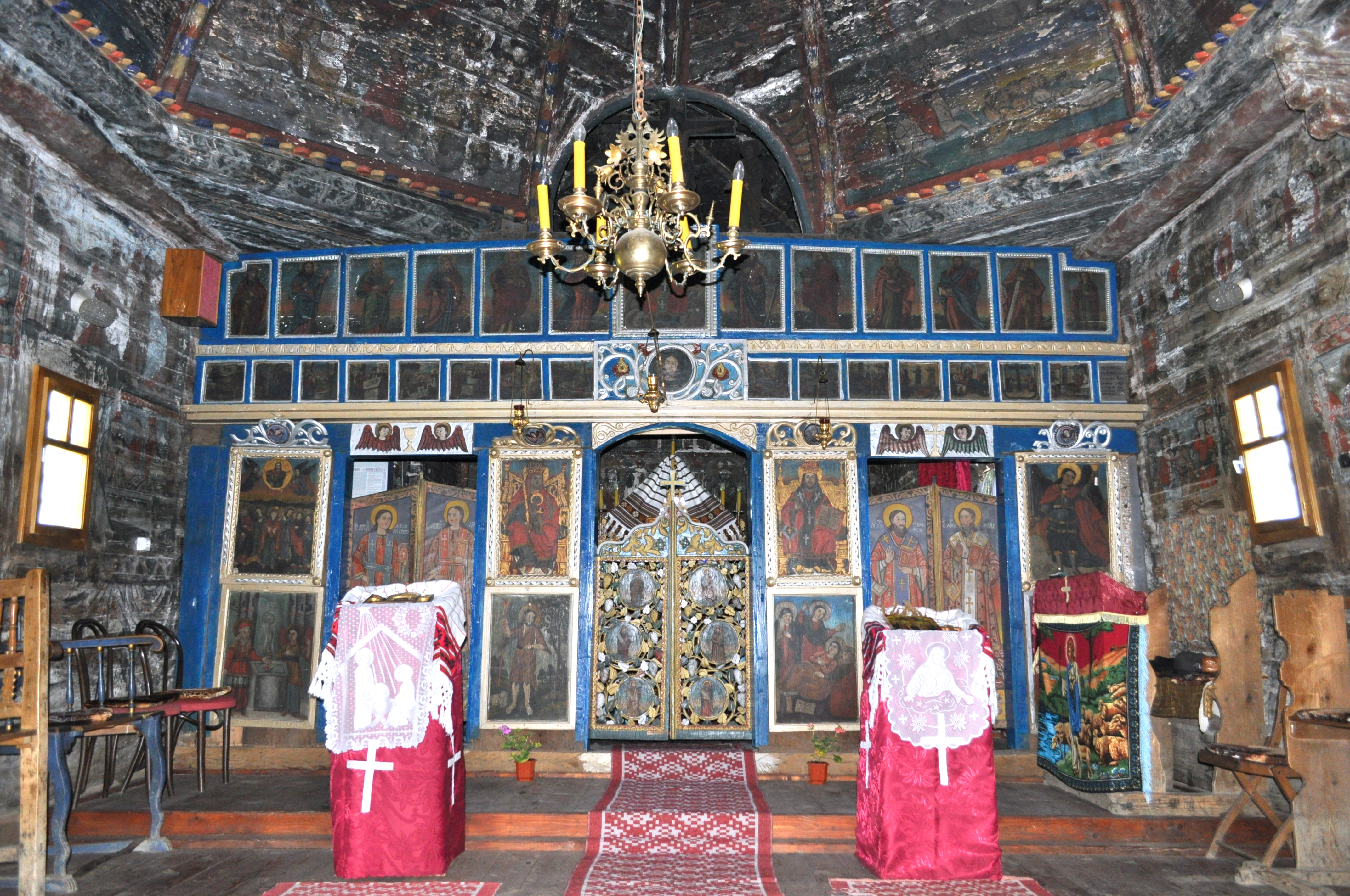 Wooden church in Săcalu de Pădure, Mureș countyRomână: Biserica de lemn din Săcalu de Pădure, județul Mureș